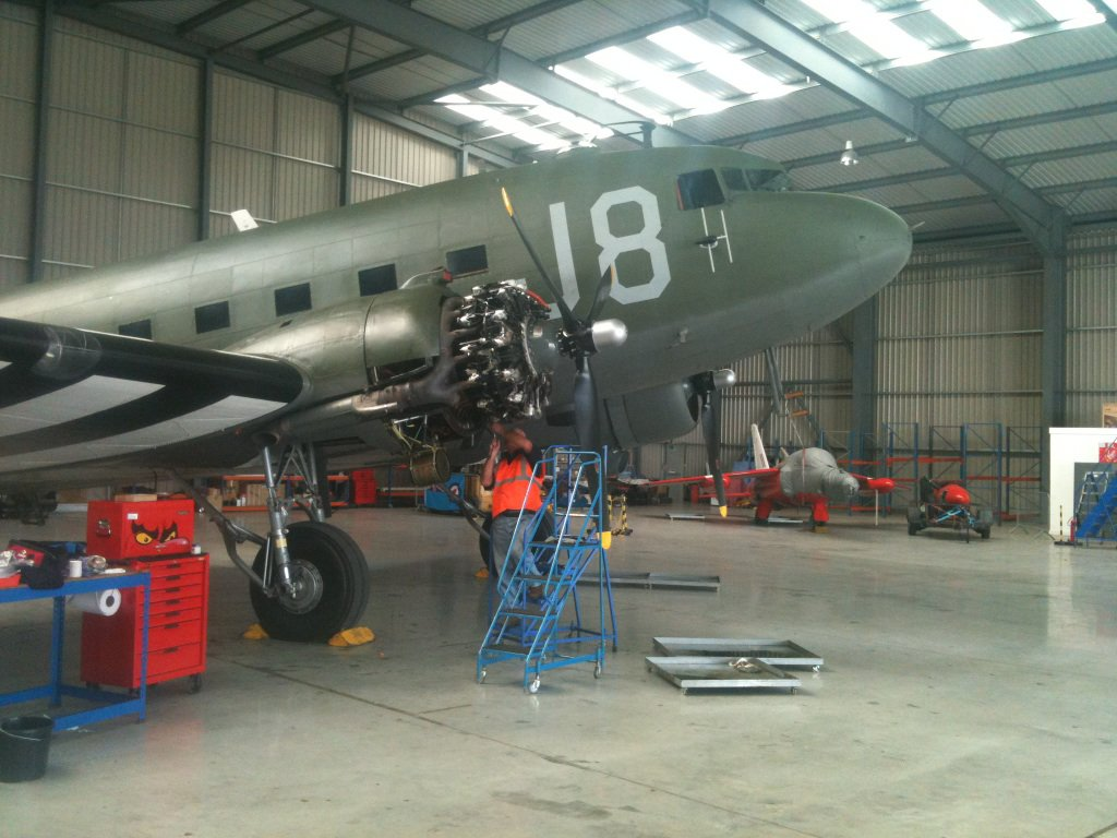 Crews work to cure an oil leak from the right engine of N1944A prior to its purchase by Kermit Weeks and subsequent journey to the U.S.